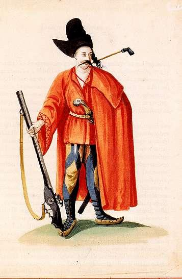 Tolpatch - hungarian foot soldier in the 17th-18th century